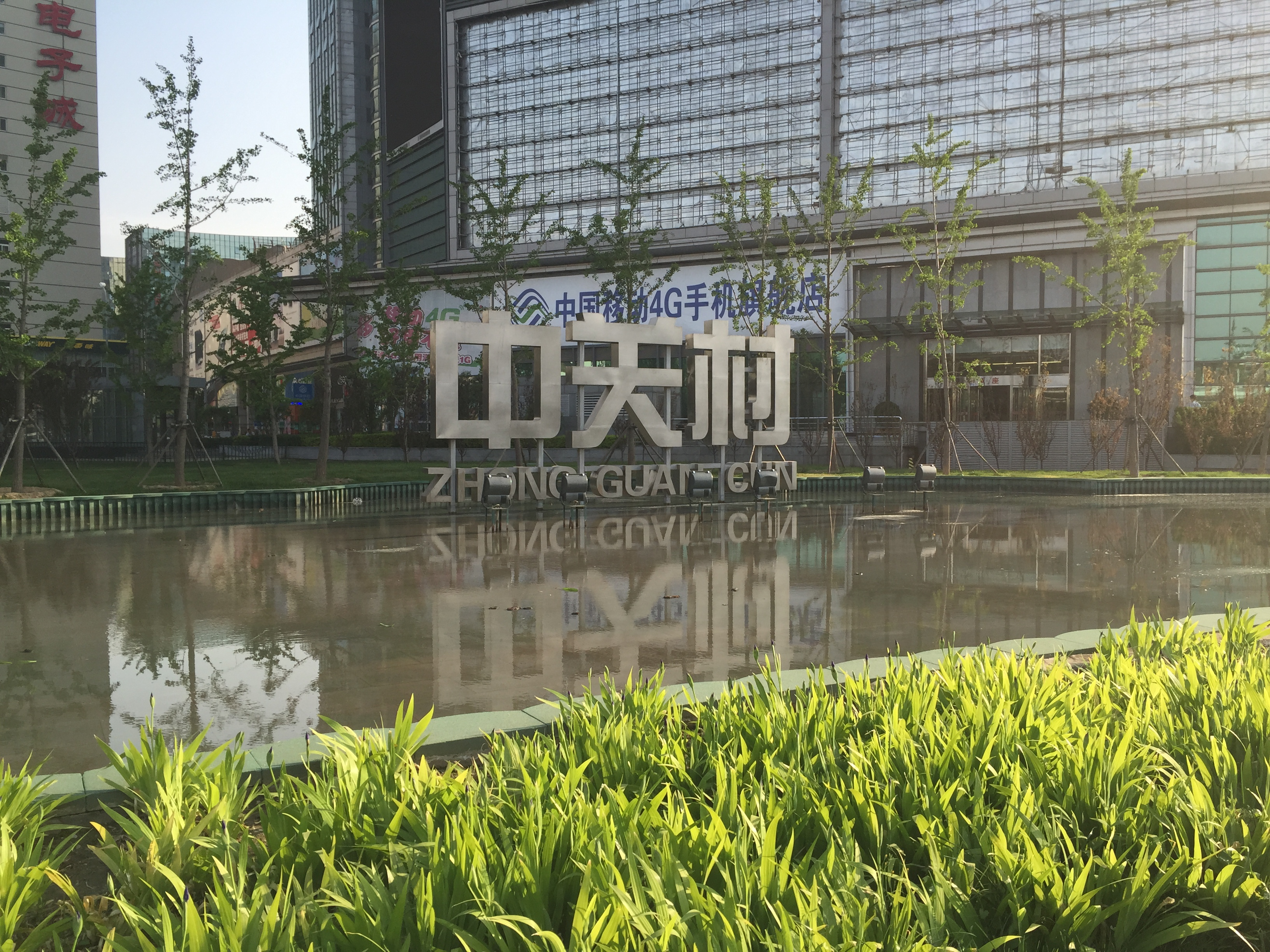 Zhongguancun Sign